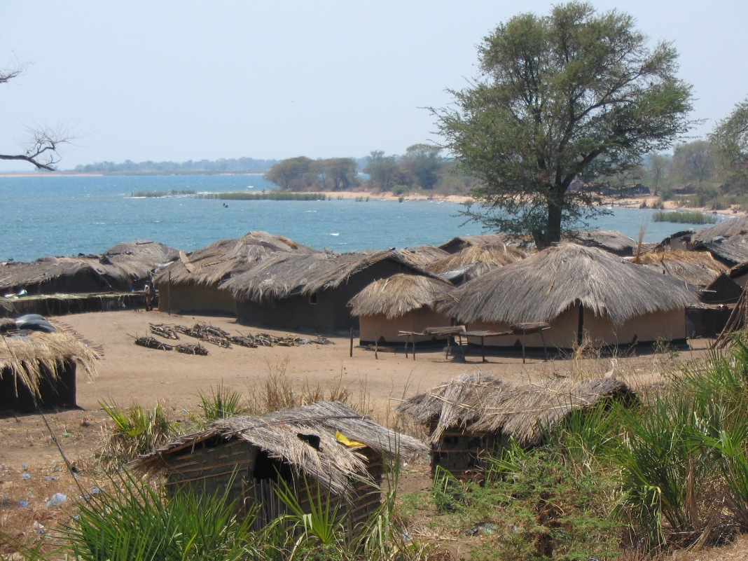 A typical lakeshore village along the Lake Malawi